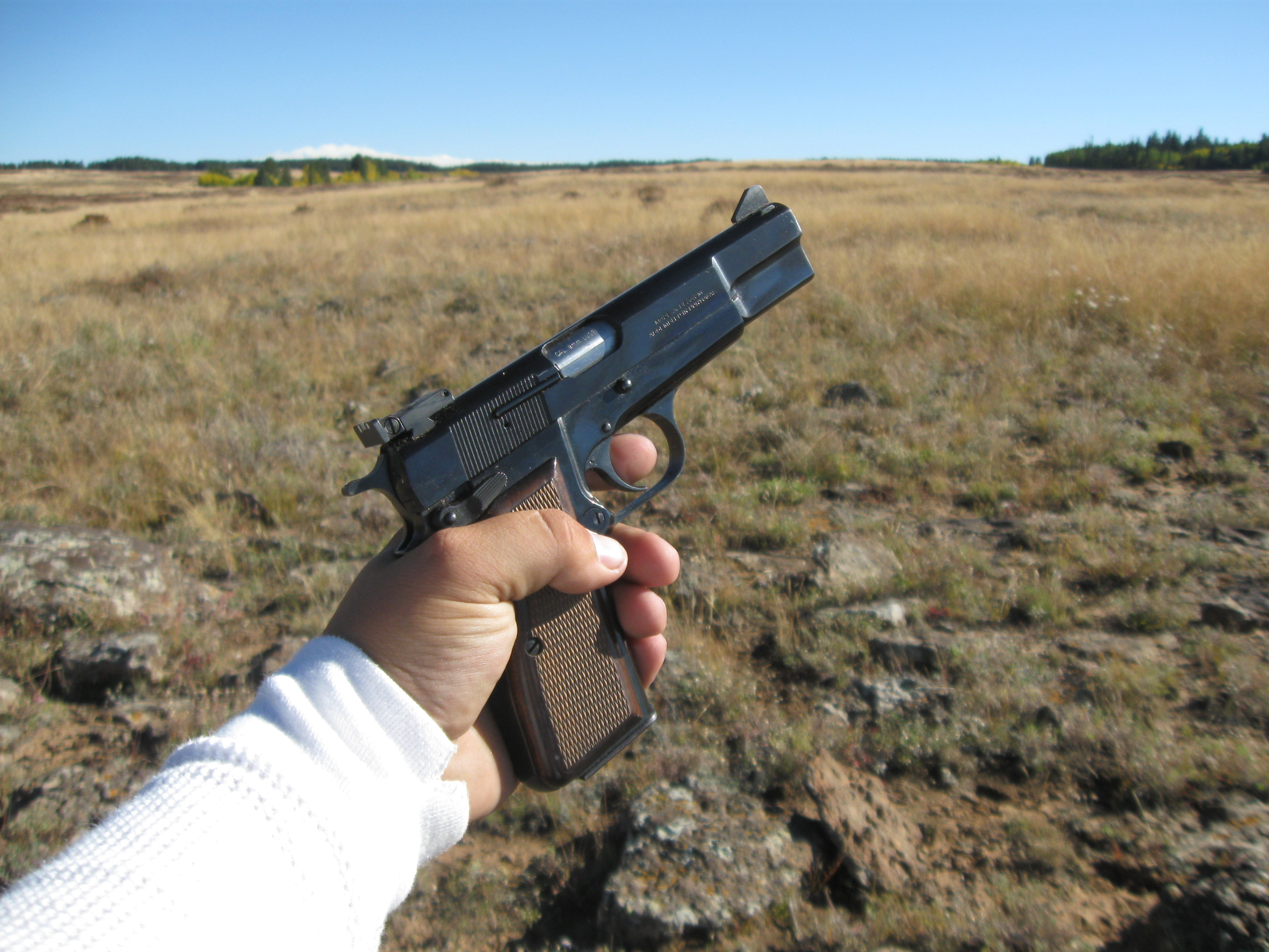 This is a Browning Hi Power 9mm pistol, made by Fabrique National in Belgium. The pistol pictured is a modern reproduction of the first, original production run of Hi Power pistols manufactured in 1935.The background is a field atop Grand Mesa, Colorado. Photo taken September 24, 2011.